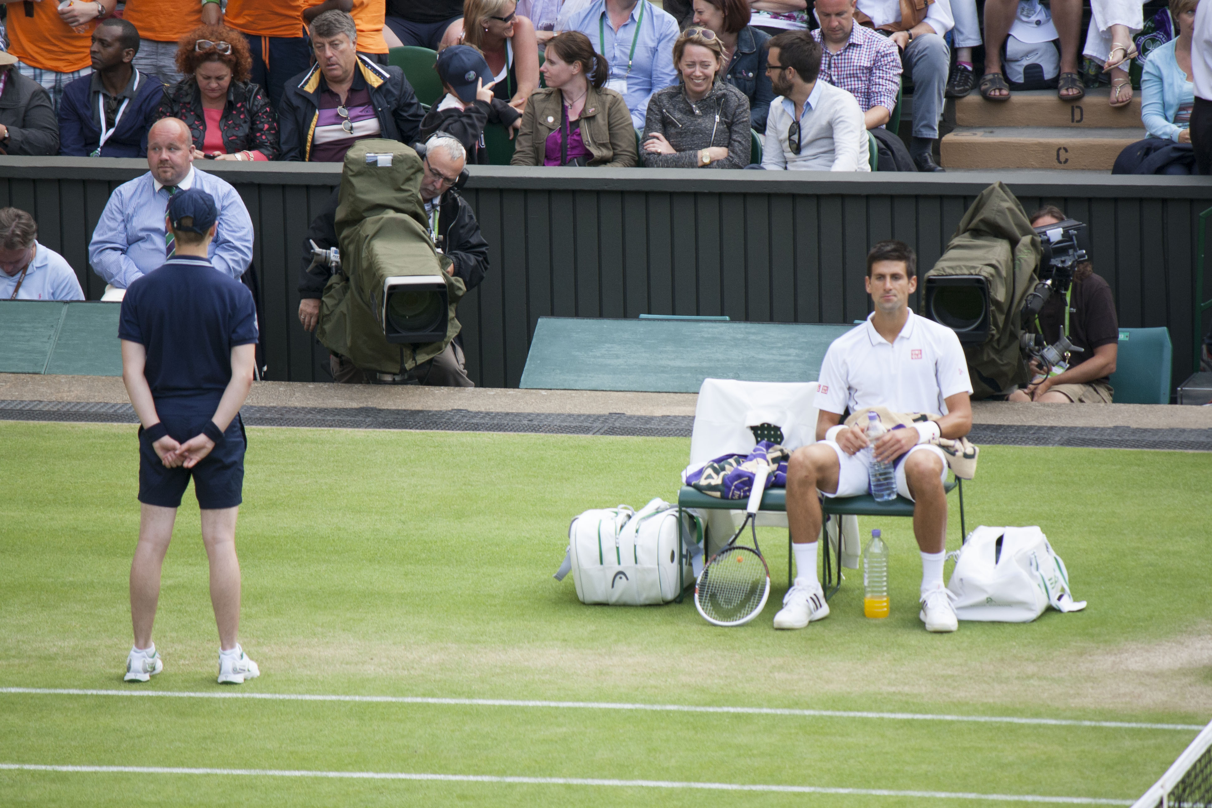 Wimbledon 2013 29th June Jérémy Chardy - Novak Djokovic - Centre Court